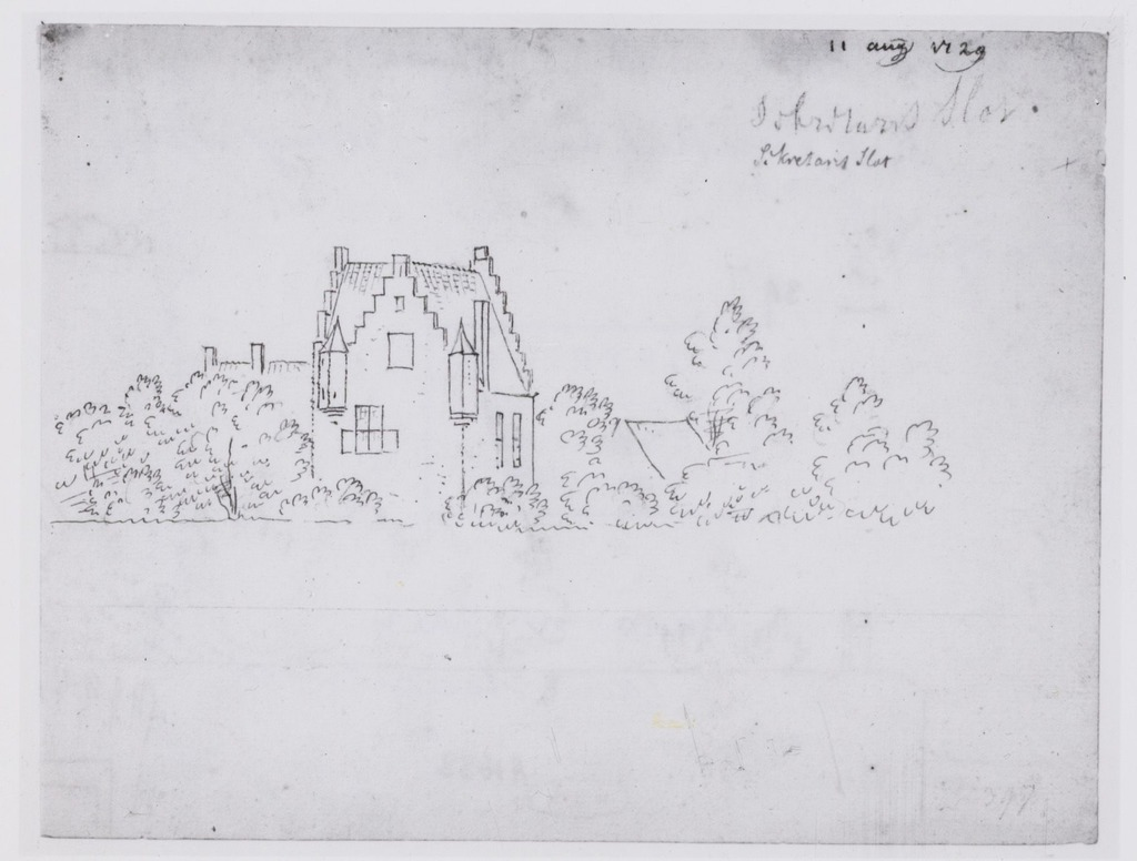 drawing from 11 August 1729 of Slotje Ter Aalst, Oosterhout, Netherlands